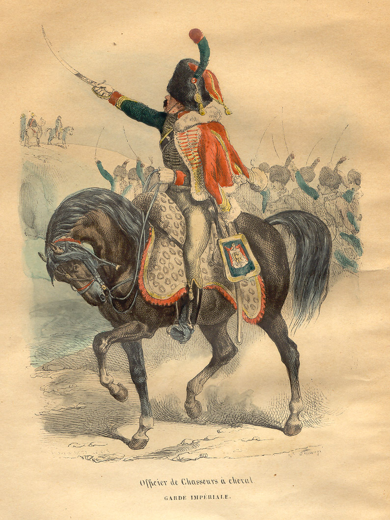 French horse mounted chasseur officer of Napoleon Guard. From book of P.-M. Laurent de L`Ardeche «Histoire de Napoleon», 1843